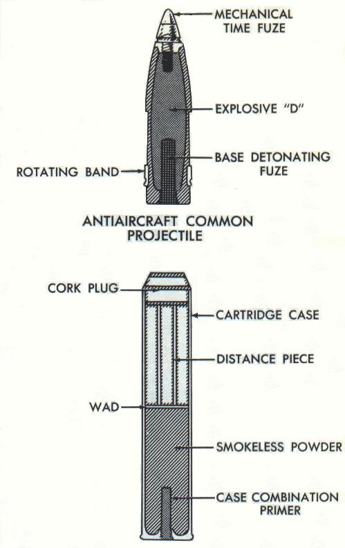 5"/38cal Semifixed Ammunition. Cropped portion of image scanned from source.